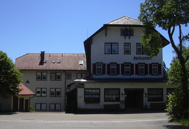 Youth hostel "Zuflucht" ('Refuge') in the Black Forest, Germany